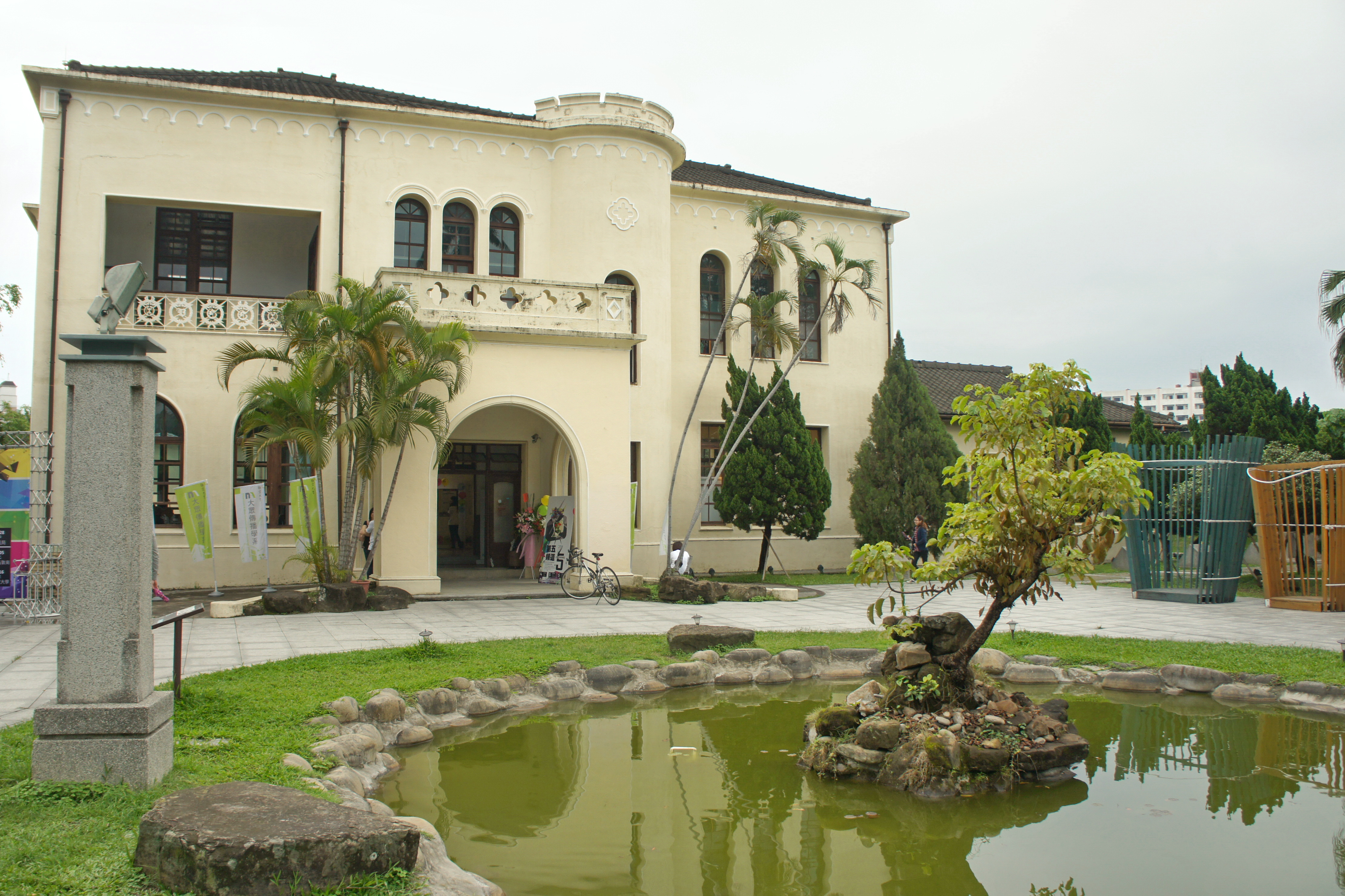 Taichung Broadcasting Bureau, No.1, Diantai Street, Taichung City, Taiwan.